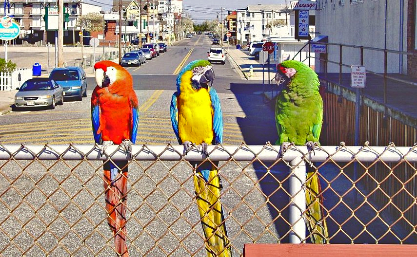 Scarlet Macaw (Ara macao), Blue-and-yellow Macaw (Ara ararauna) and Military Macaw (Ara militaris), Wildwood Boardwalk, Wildwood, New Jersey.